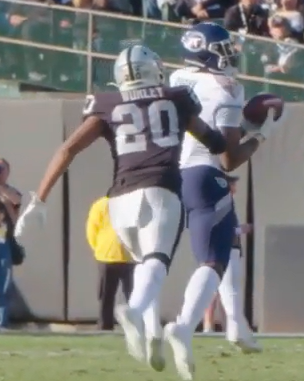 Daryl Worley 2019. Image from video Analyzing Three Big Touchdowns at Oakland | Beneath the Surface, ~ 01:17